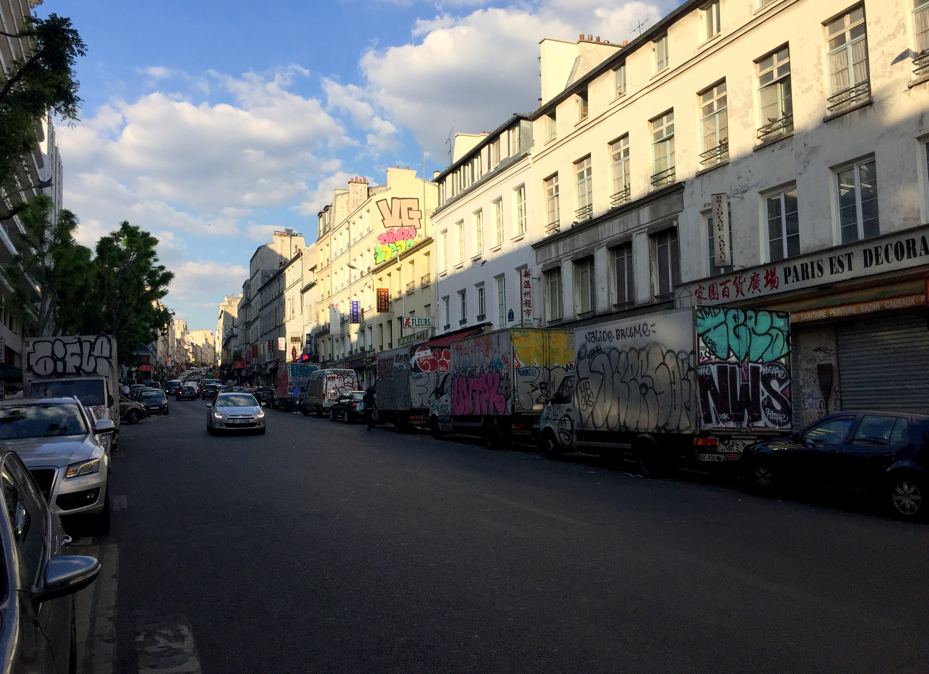 This photograph was taken with an iPhone 6